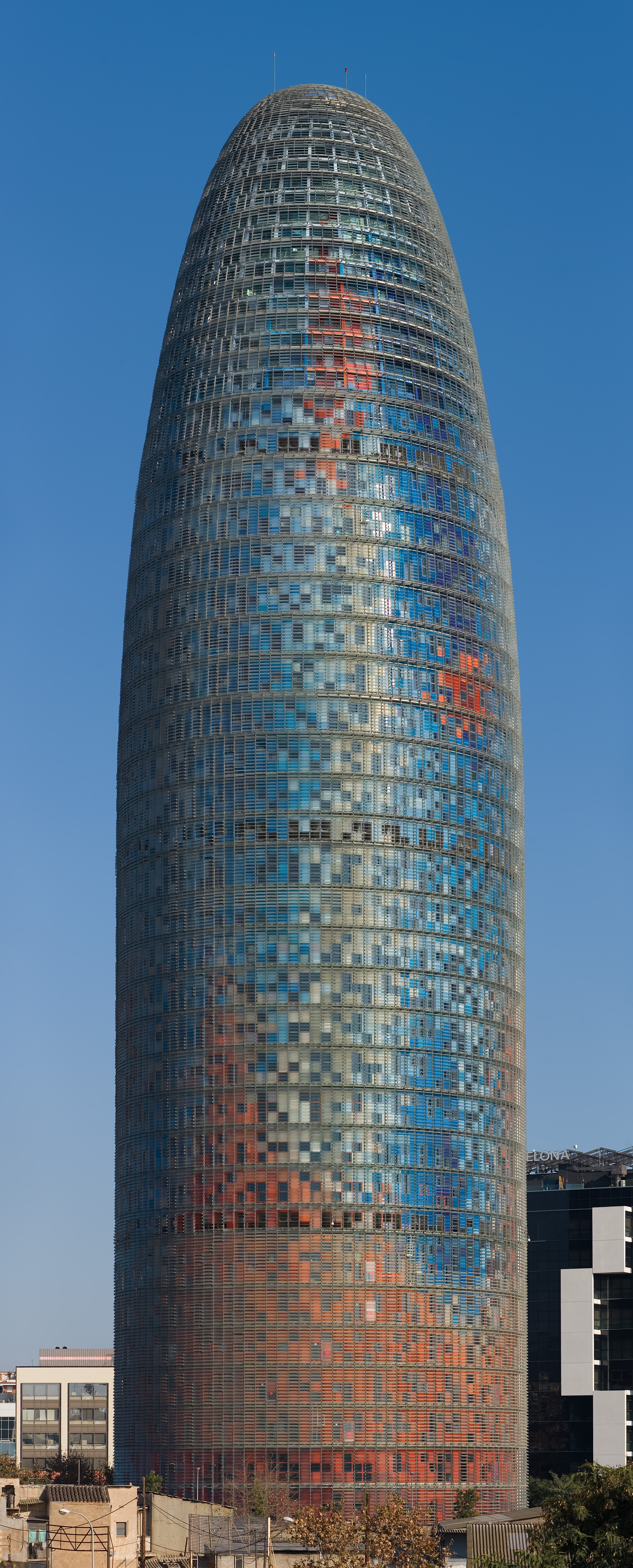 Torre Agbar in Barcelona, Spain. Taken by myself with a Canon 5D and 70-200mm f/2.8L lens at 150mm. This is a 6 segment vertical panorama.